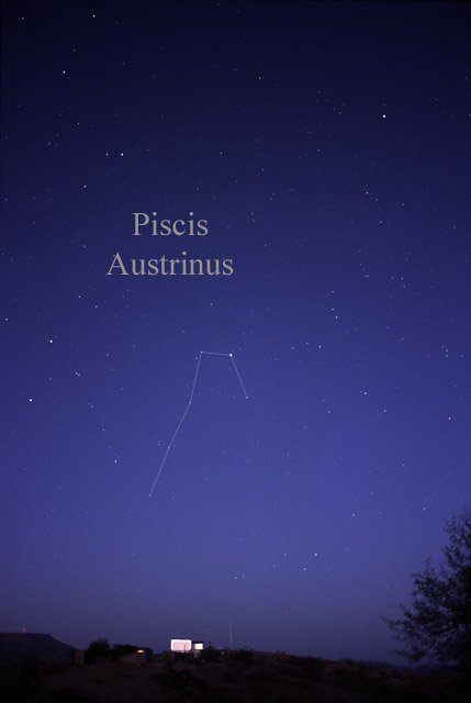 Photography of the constellationPiscis Austrinus, the southern fish